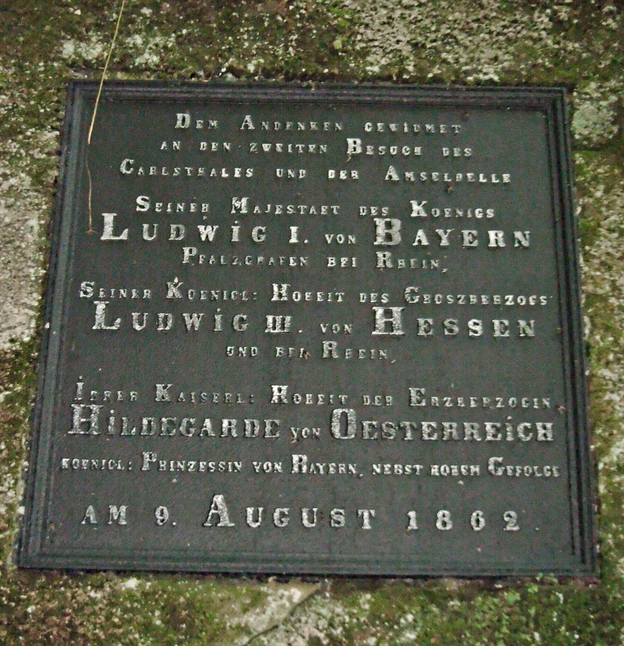 Karlstal bei Trippstadt, Gedenktafel an den Besuch König Ludwig I. von Bayern, 1862